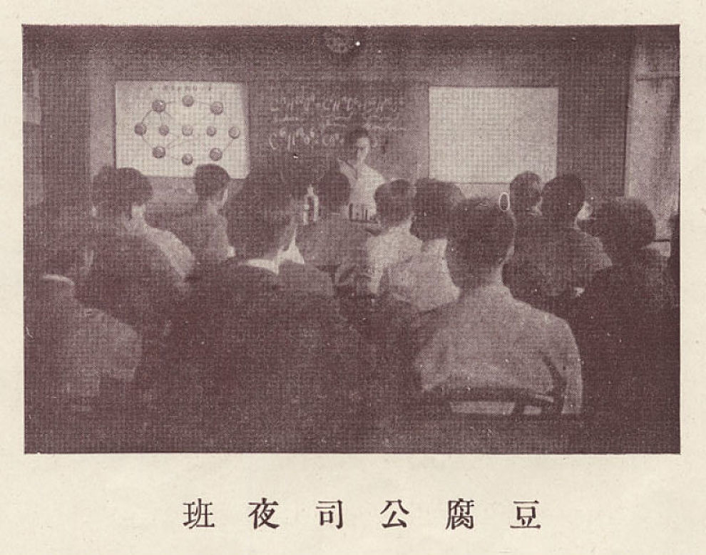 Beancurd Factory Nightschool